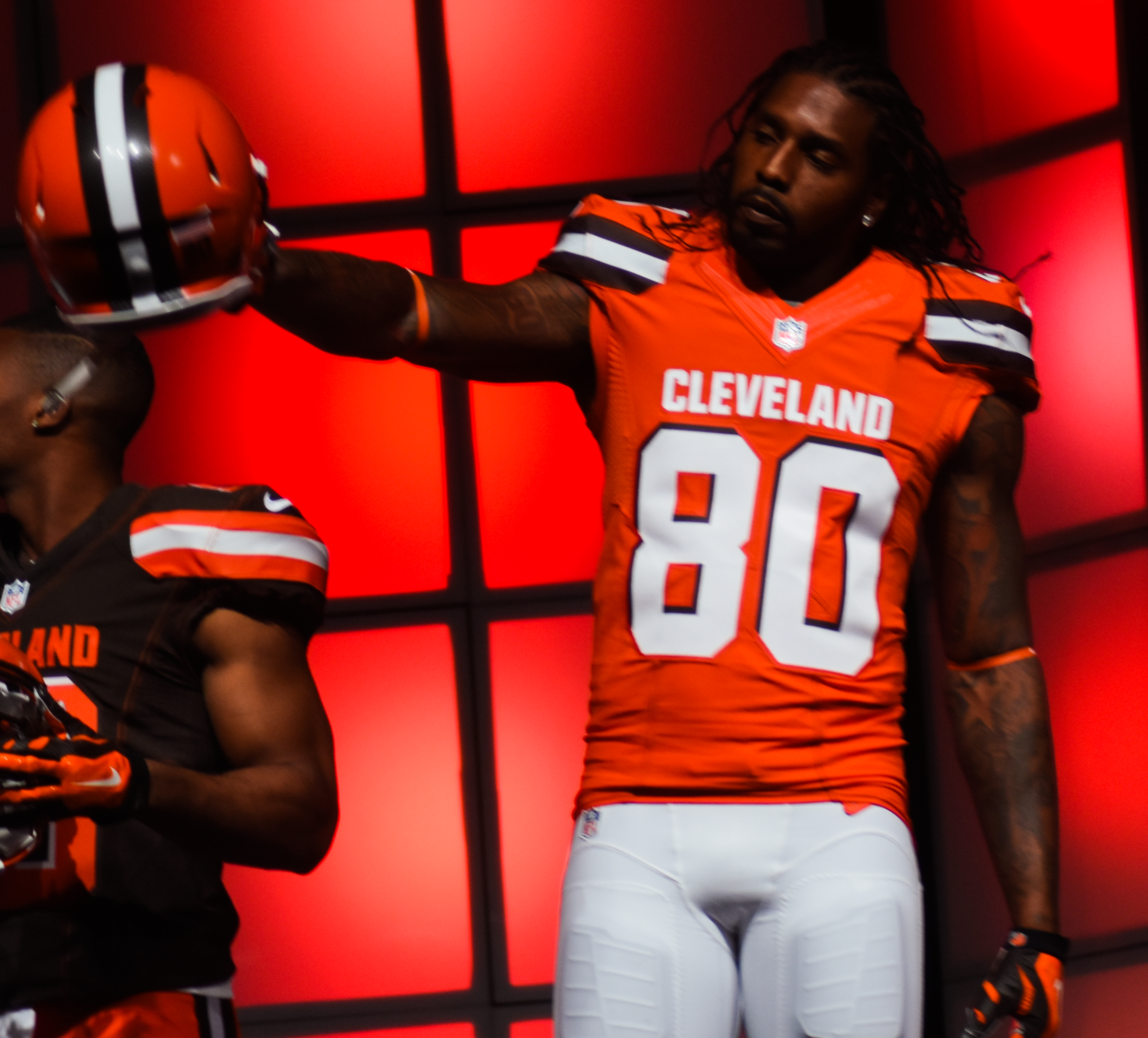 Cleveland Browns New Uniform Unveiling